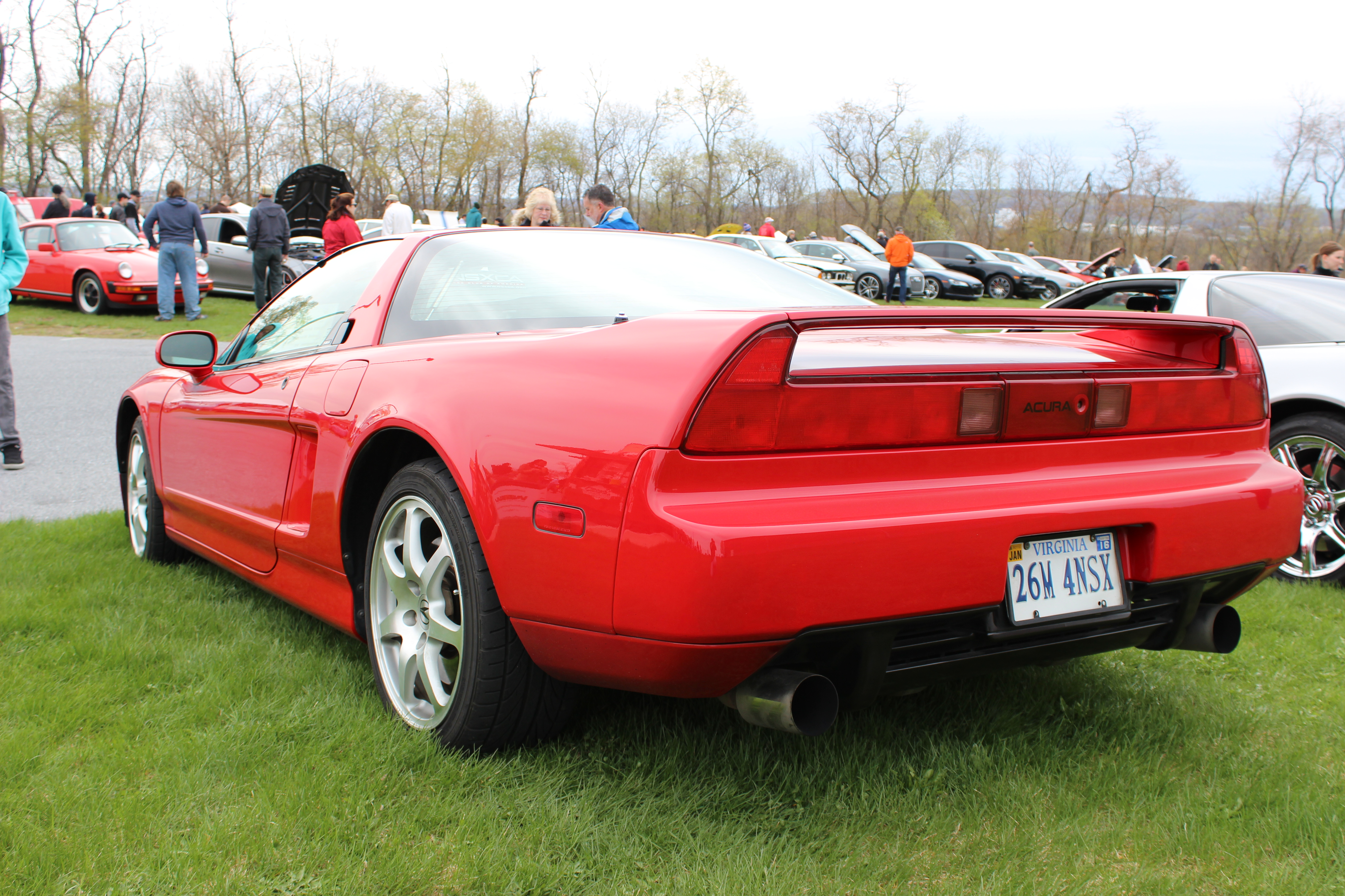 2001 Acura NSX-T